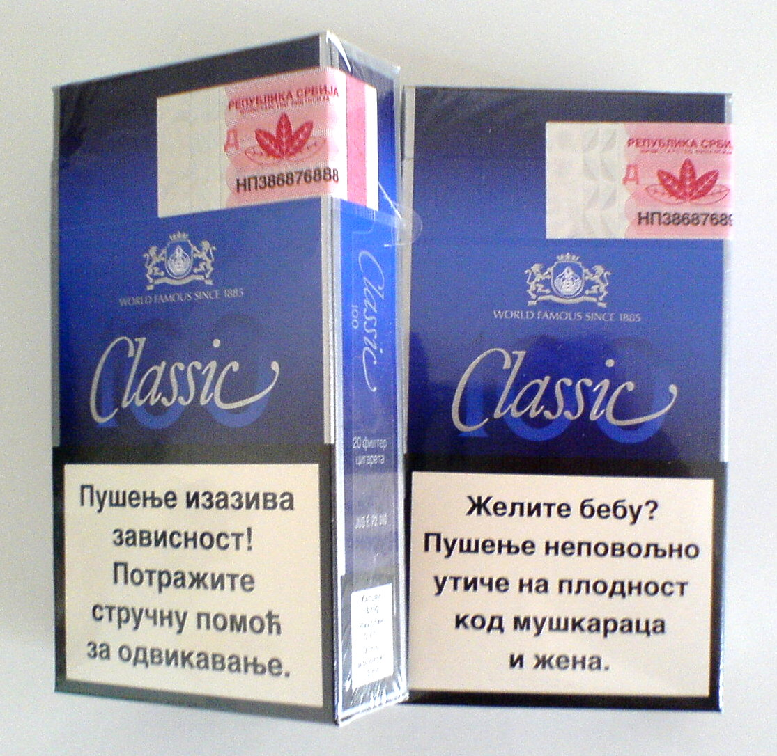 Classic Cigarette box